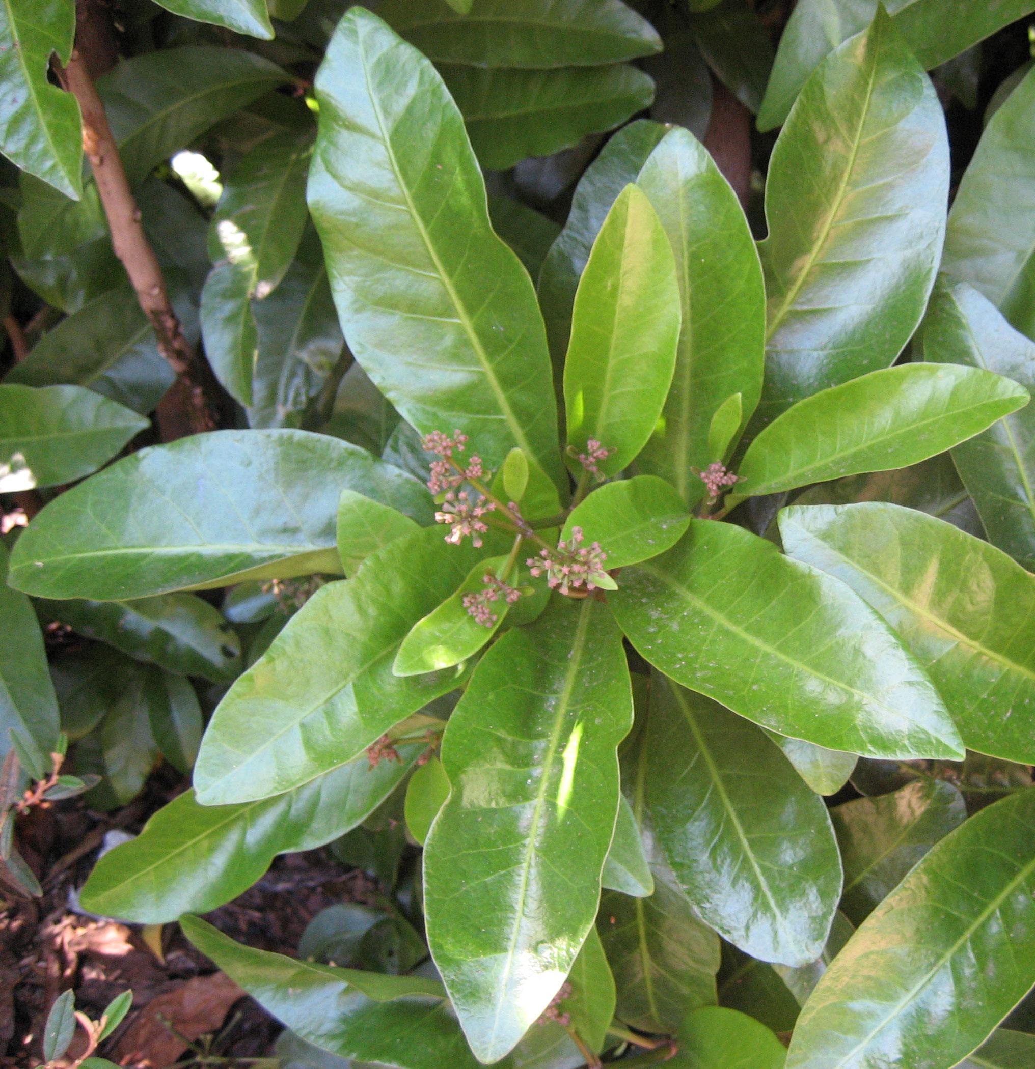 foliage and flowers of Pisonia brunoniana, Auckland New Zealand. Familia: Nyctaginaceae, New Zealand, Polynesia, including Hawaii. Common name: Parapara (New Zealand English, Māori), Bird-catching tree. Name in Hawaii: Papala kepau.